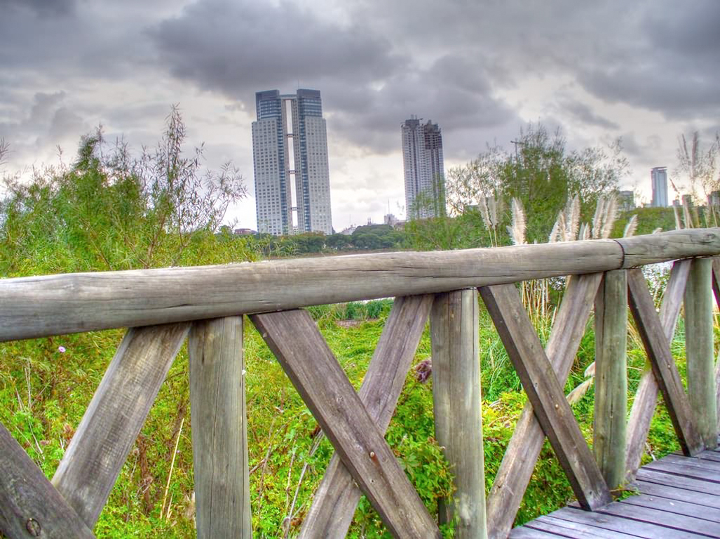 Puerto Madero from Buenos Aires Ecological Reserve.